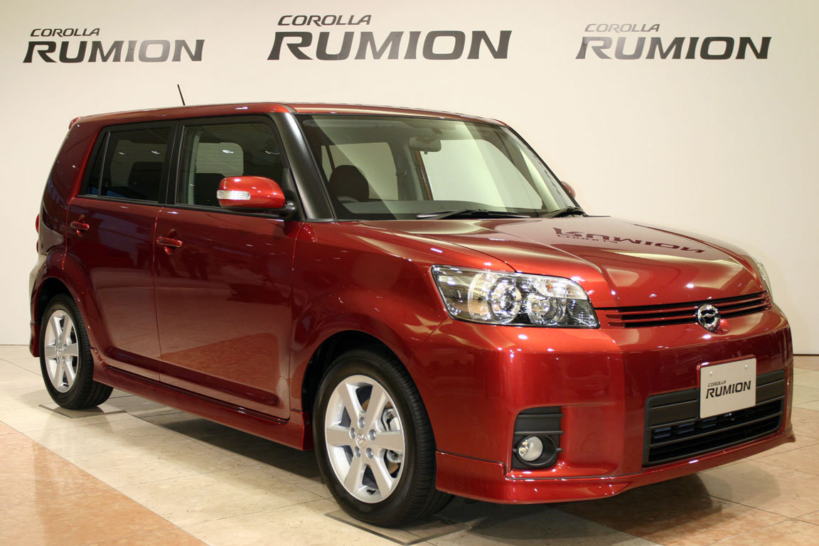 COROLLA RUMION photographed in TOYOTA AUTOSALON aMLUX TOKYO.